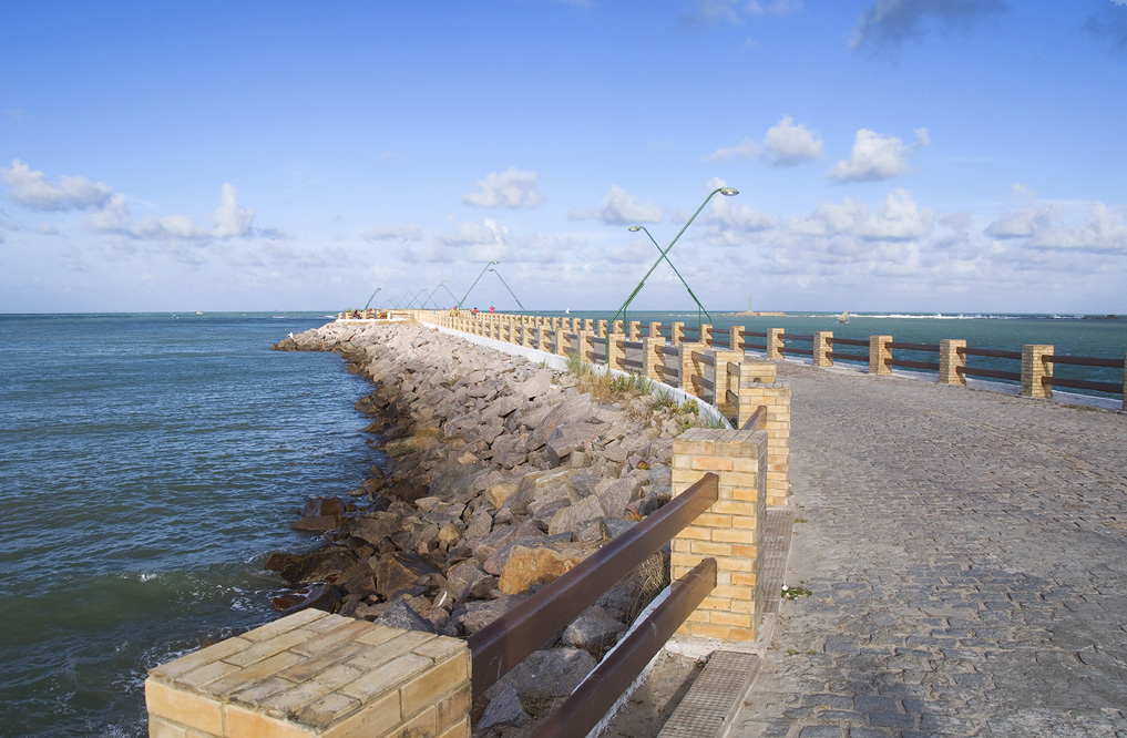 Mirante da Gente in Redinha Beach in Natal, Brazil.